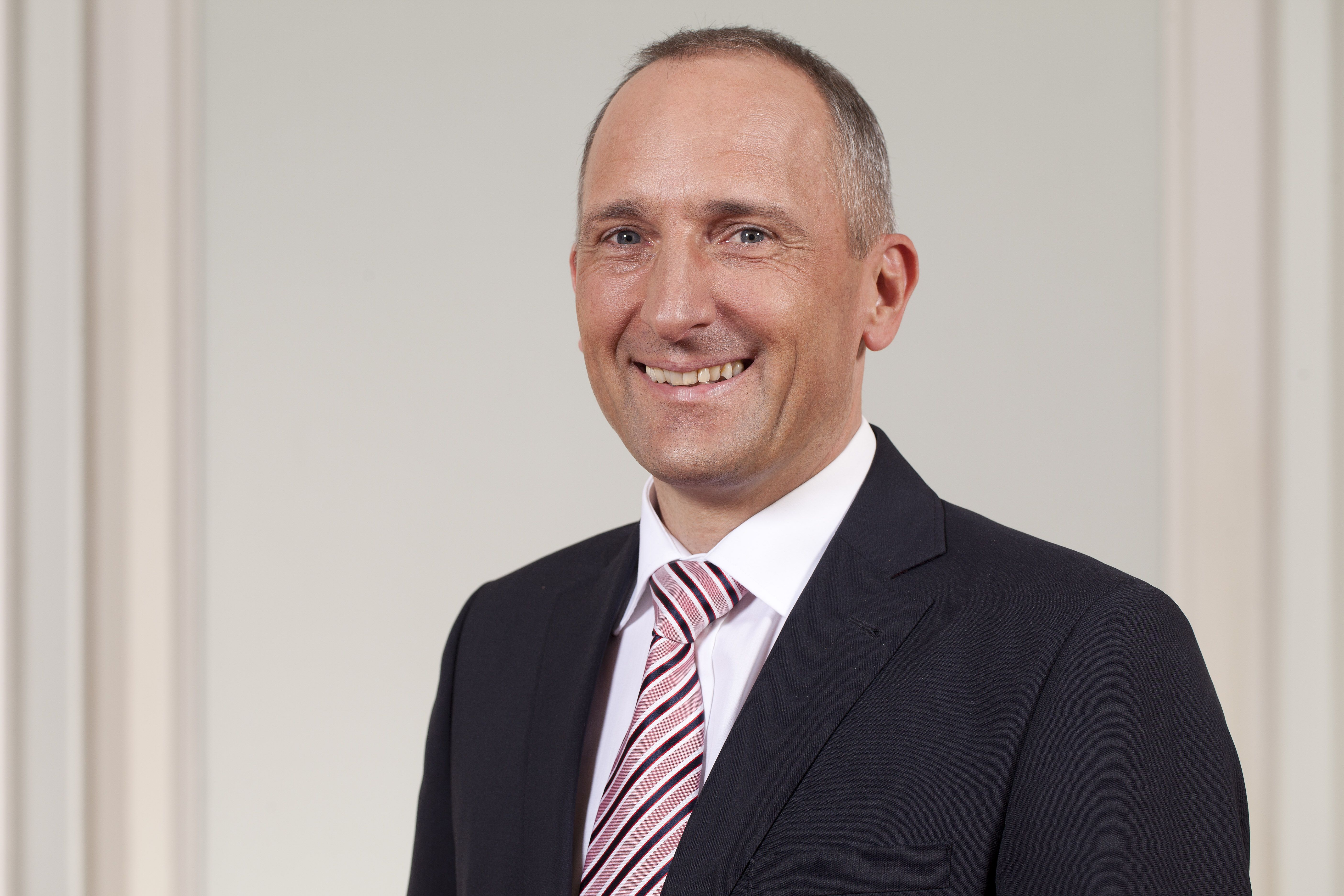 Adrian Hasler is the head of government of the principality of Liechtenstein.